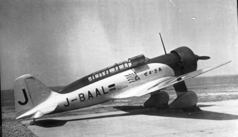 Mitsubishi Karigane J-BAAL Asakaze operated by the Asahi Shimbun newspaper